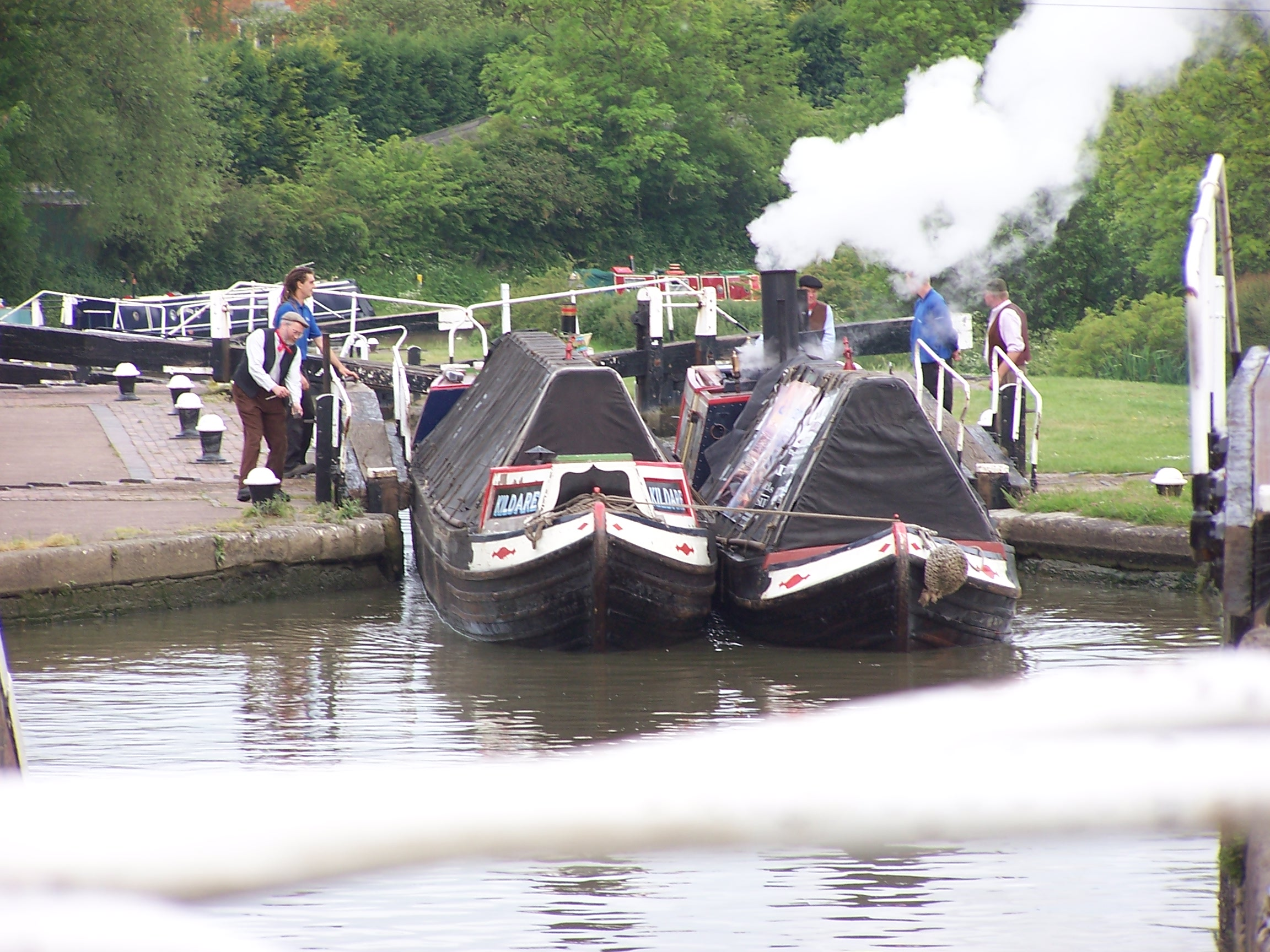 Nb President and Kildare leaving middle lock of the three locks at Soulbury.